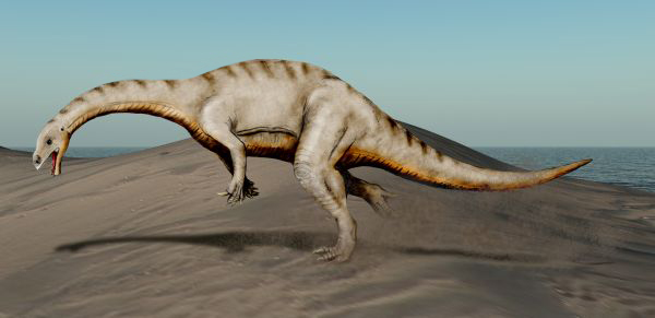 Seitaad